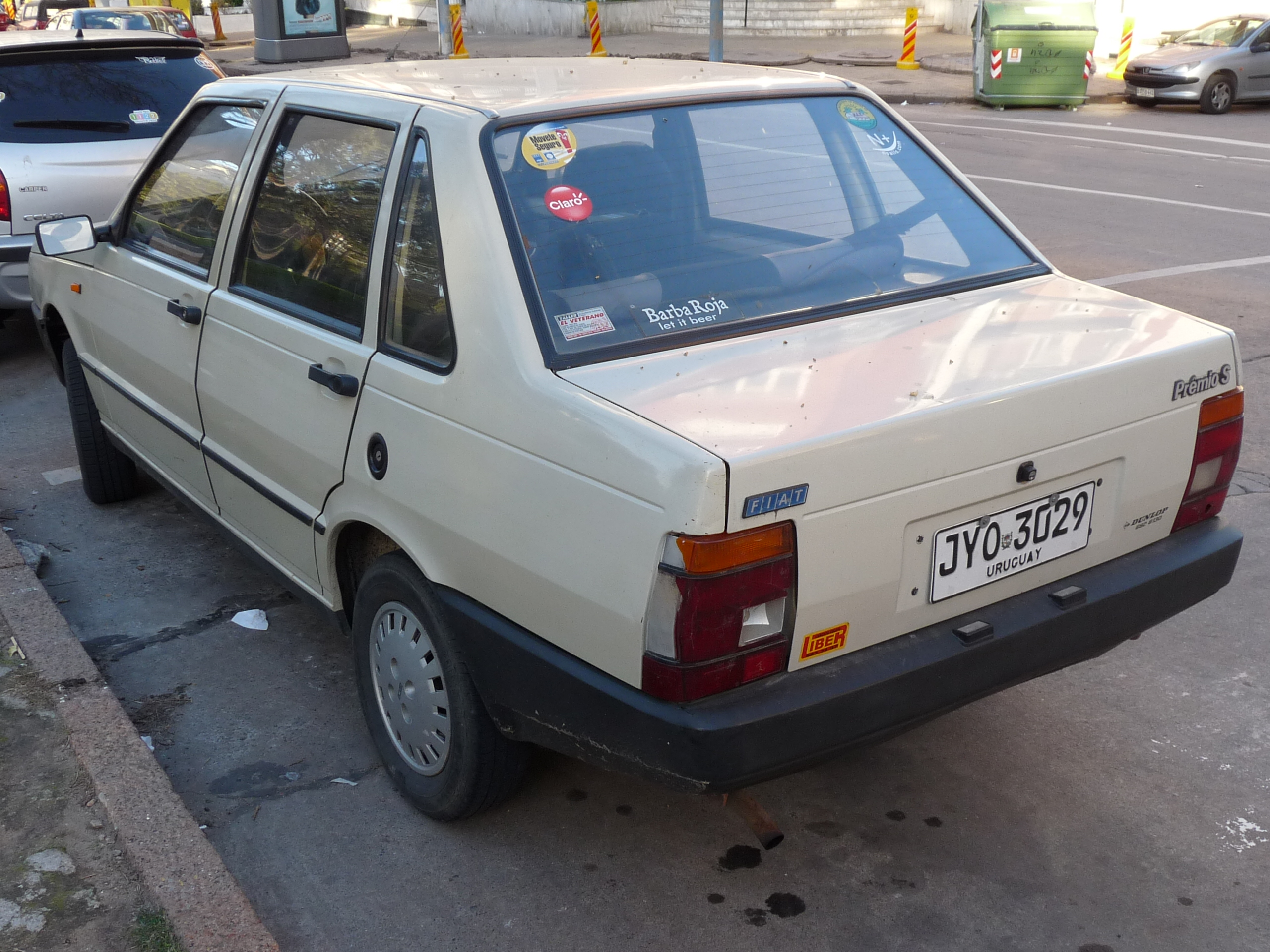 Fiat Prêmio (1987-2000) - rear view